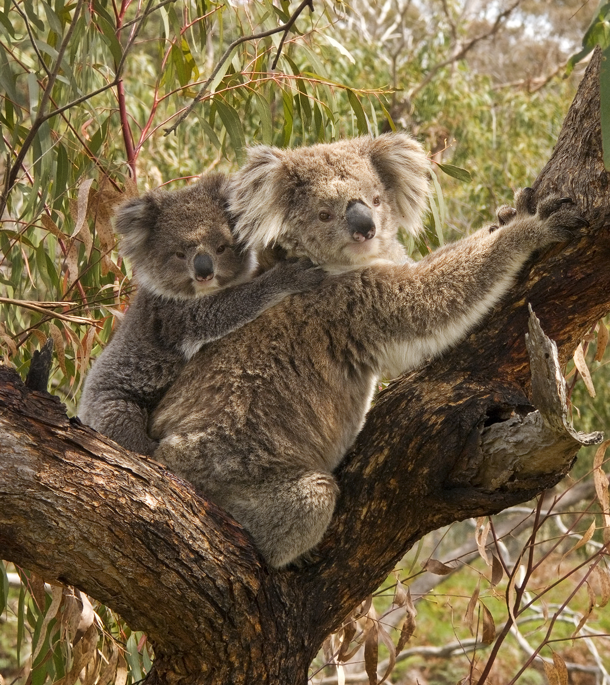 Koala and baby on back.